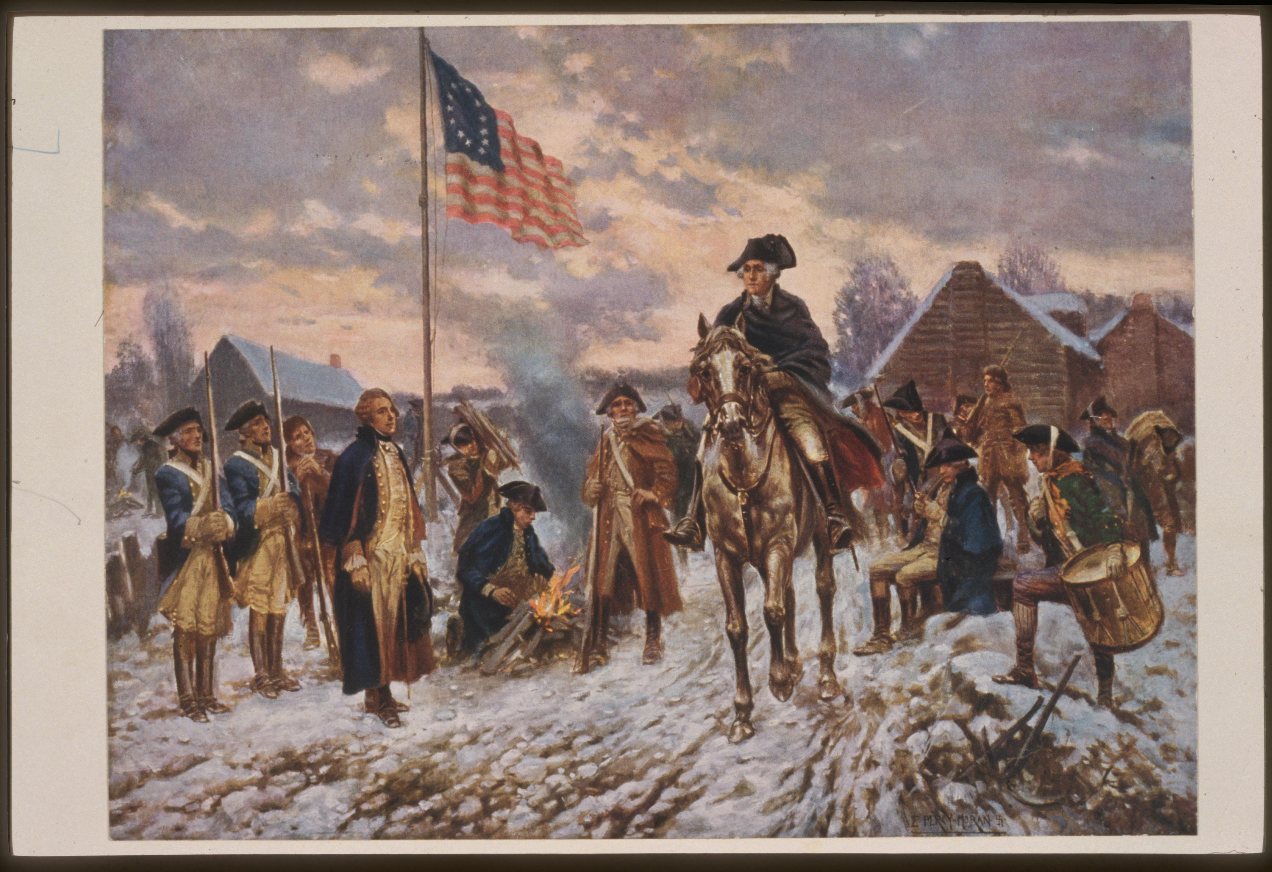 Photograph of the painting “Washington at Valley Forge”. ColWilliam (talk) 19:37, 30 March 2008 (UTC)